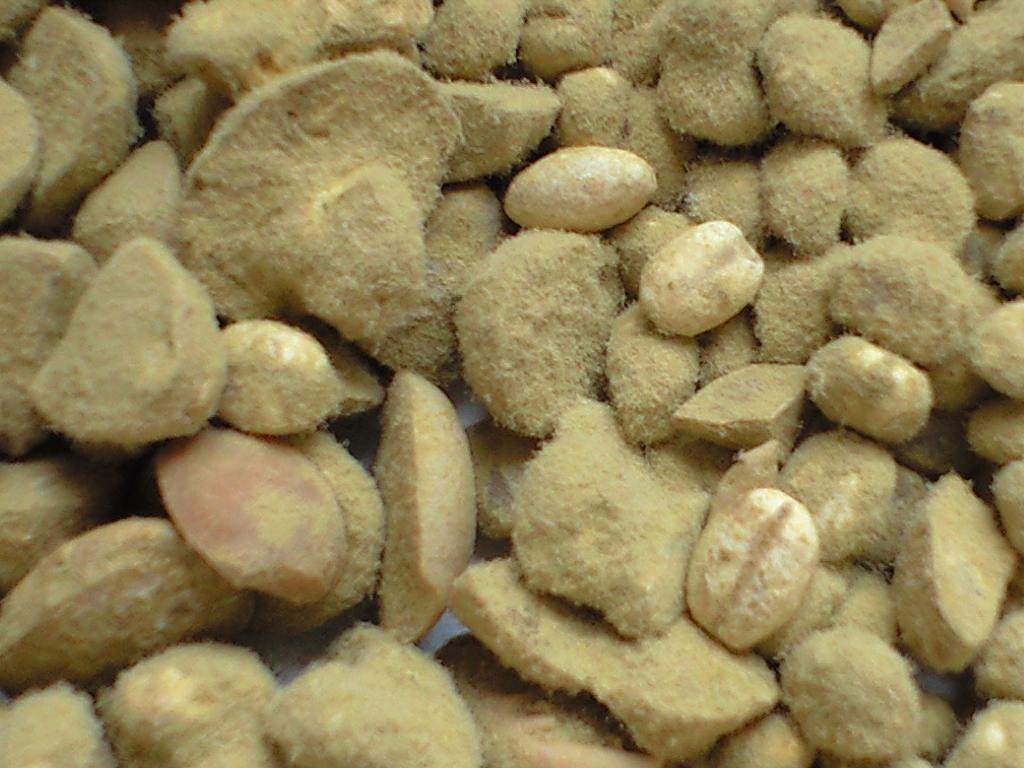 Soy sauce koji consisting of soy bean and wheat cultured with Aspergillus sojae